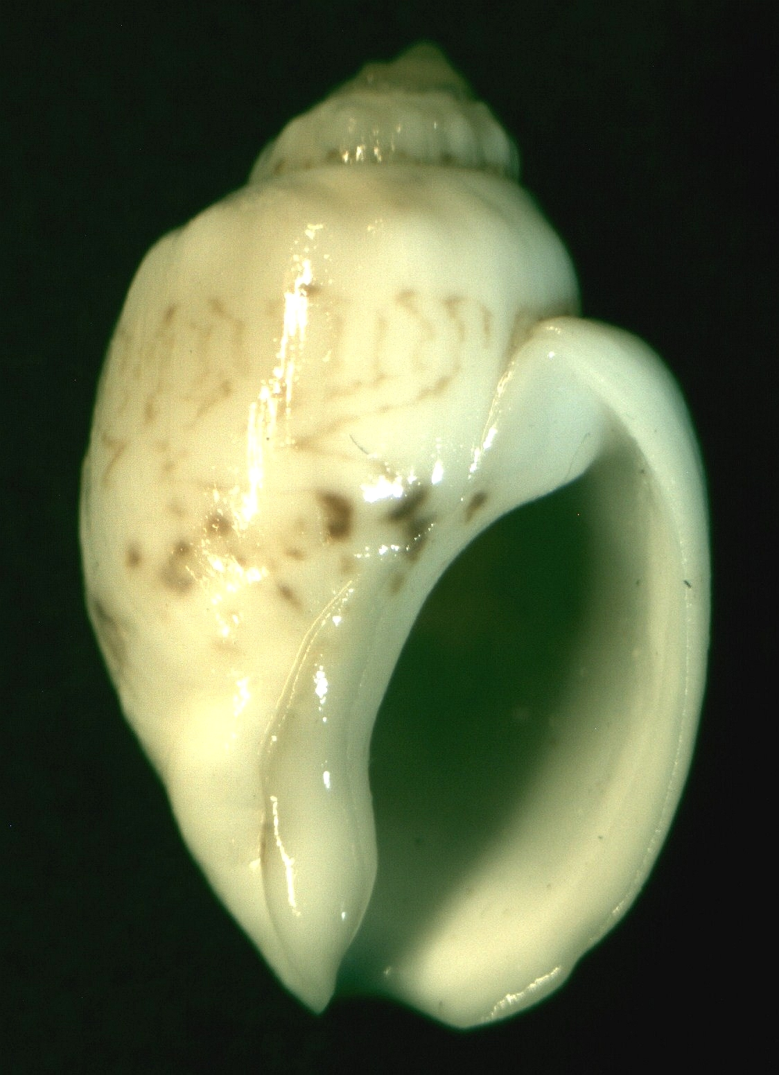 Nassarius (Nassodonta) dorri, Wattlebed, 1886, a nassa mud snail from the family Nassariidae; Vietnam